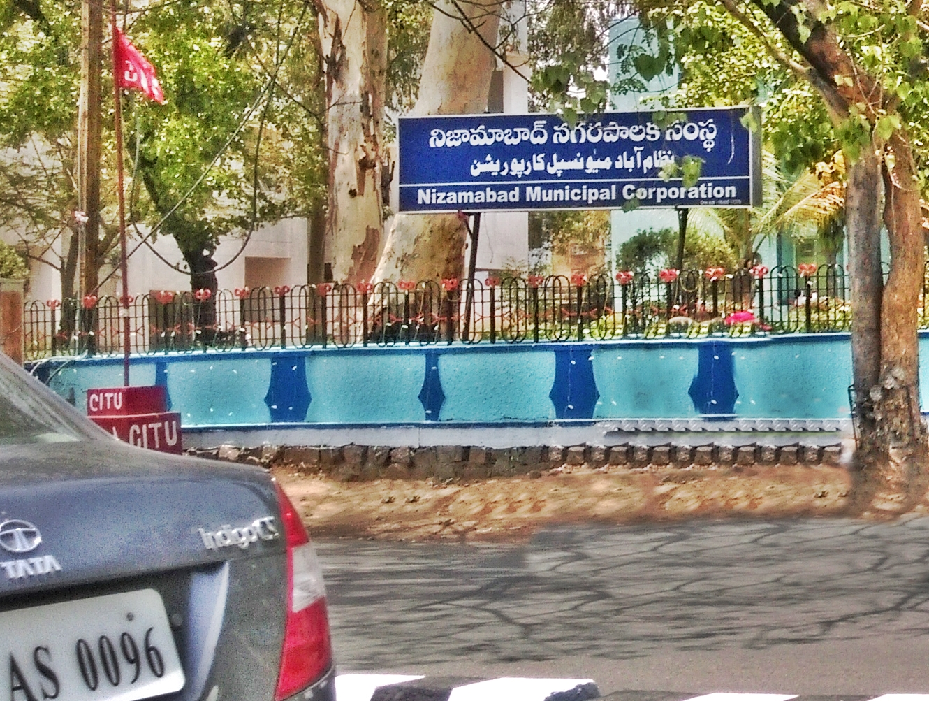 A board showing Nizamabad Municipal Corporation at Corporation Headquarters building in Nizamabad. Other information No